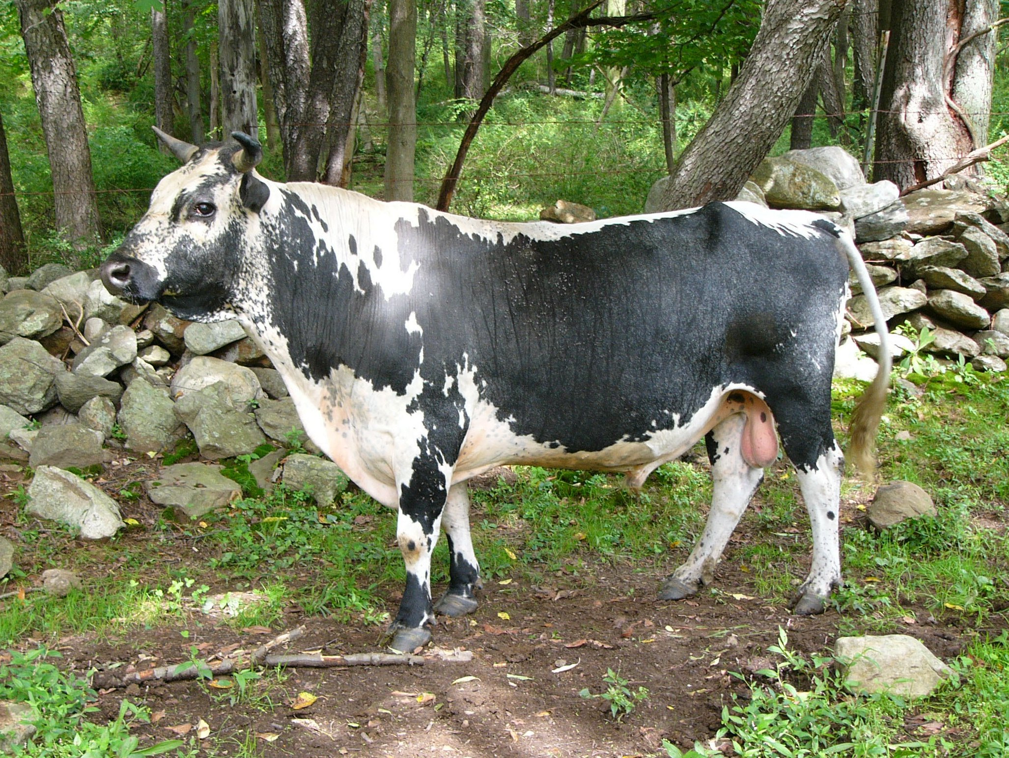 A mature Randall bull.